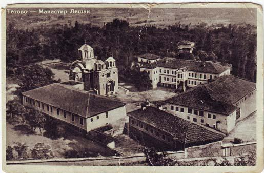 Lešok Monastery, Macedonia